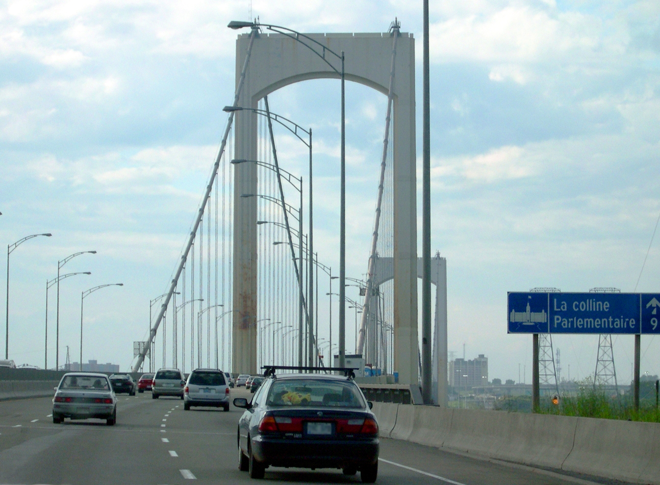 Highway 73 westbound over Pierre Laporte Bridge, Quebec, Canada